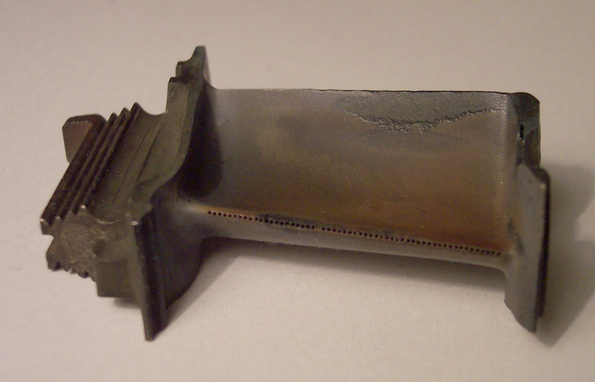 Used turbine blade of RR 199